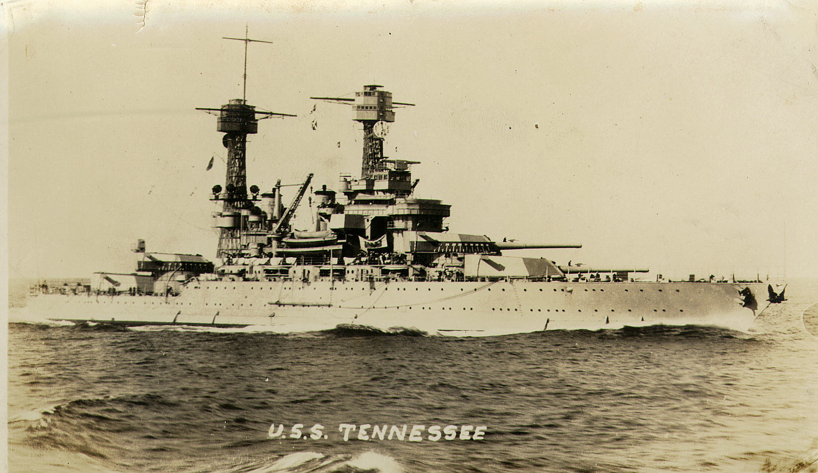 The U.S. Navy battleship USS Tennessee (BB-43) during operations at sea, in the 1930s.